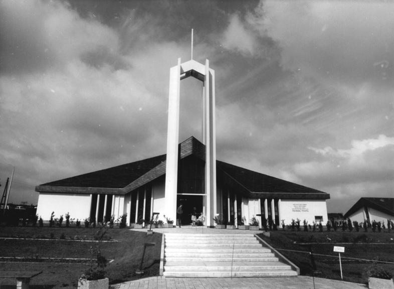 Black and white photograph of the Freiberg Germany Temple of The Church of Jesus Christ of Latter-day Saints.